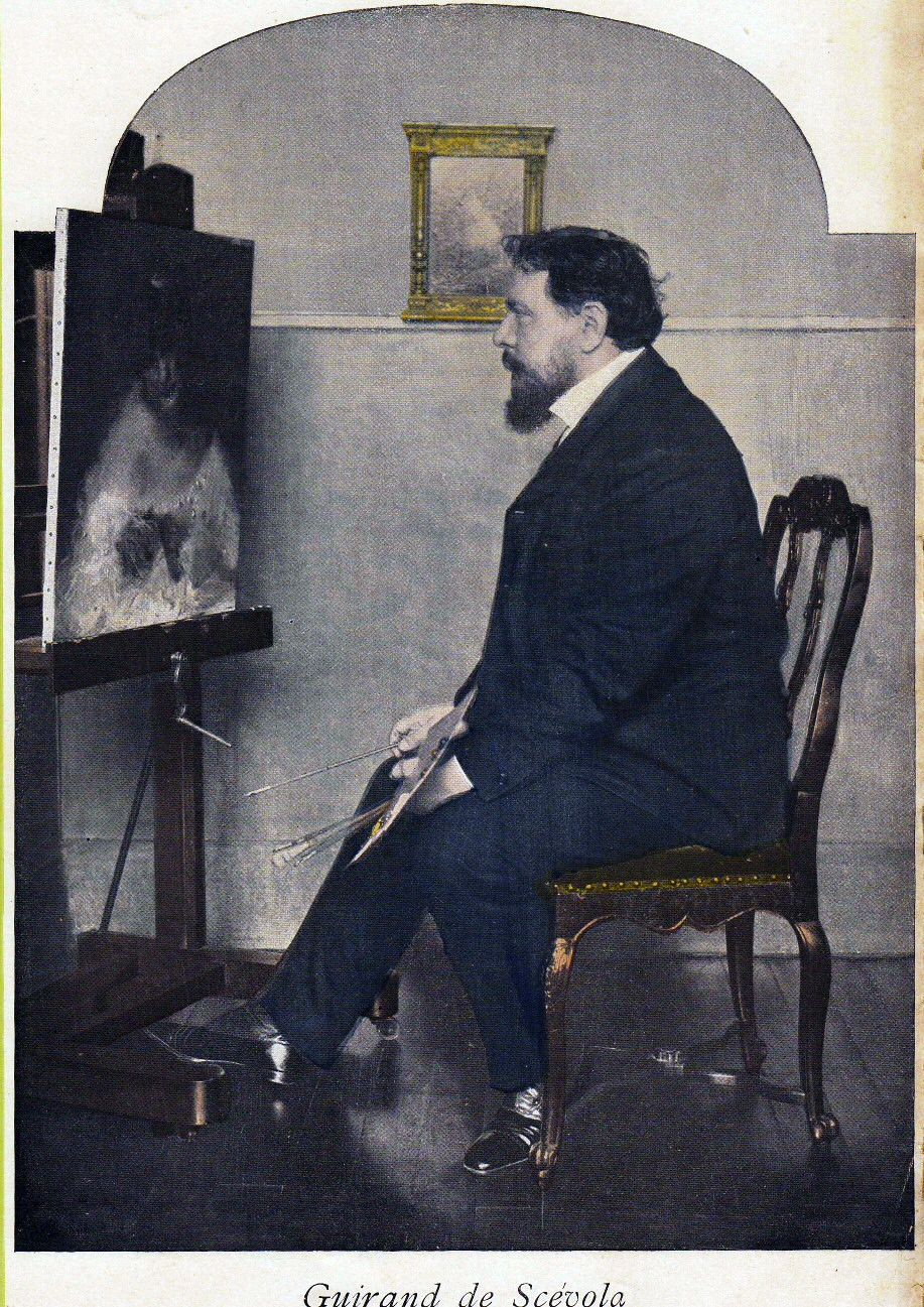 Tinted photographic portrait of Guirand de Scevola, seated, wearing a dark suit and polished shoes, with brushes and palette at his easel. From the Revue Illustree, Paris, France, No. 23.